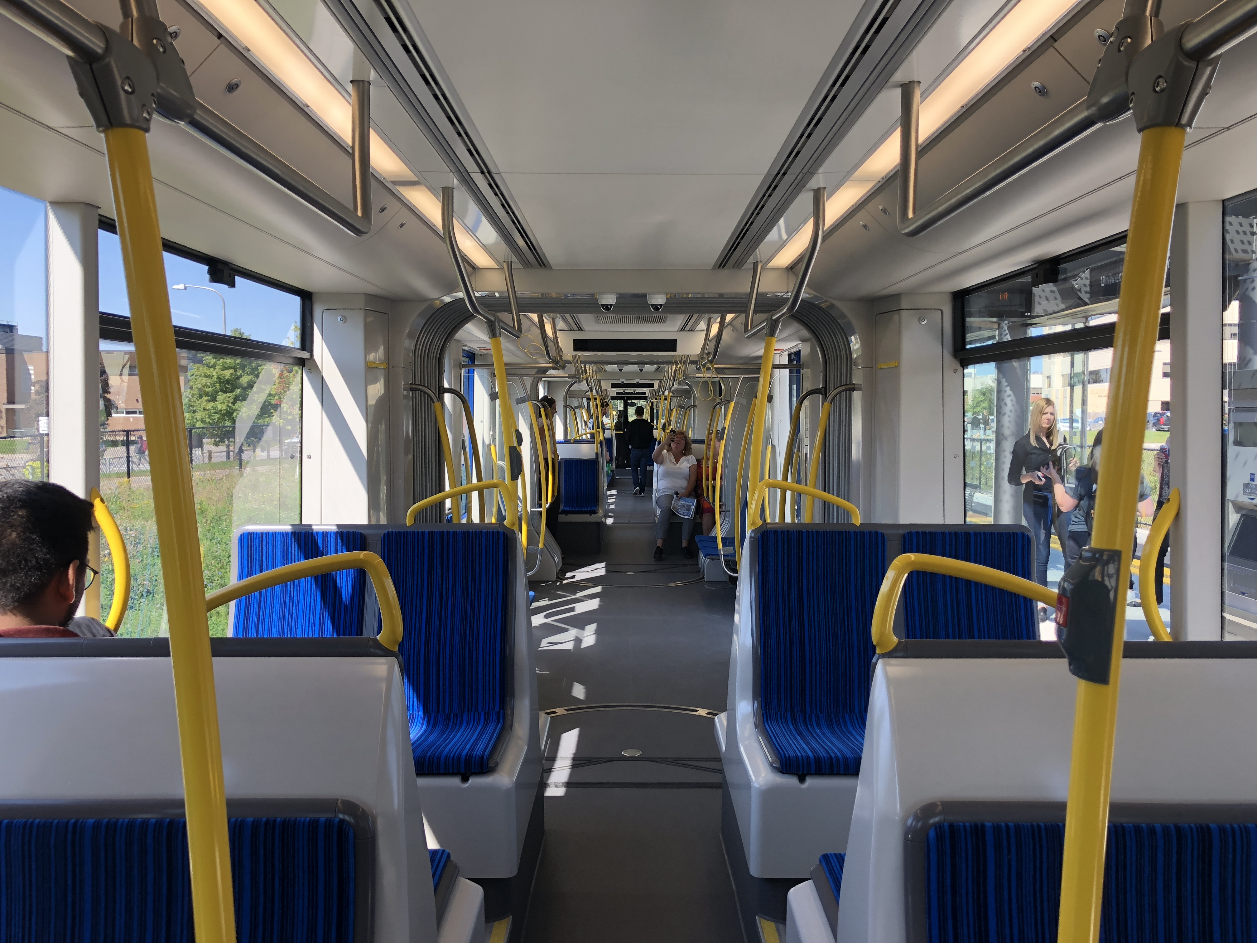 Flexity Freedom 506 at University of Waterloo station.